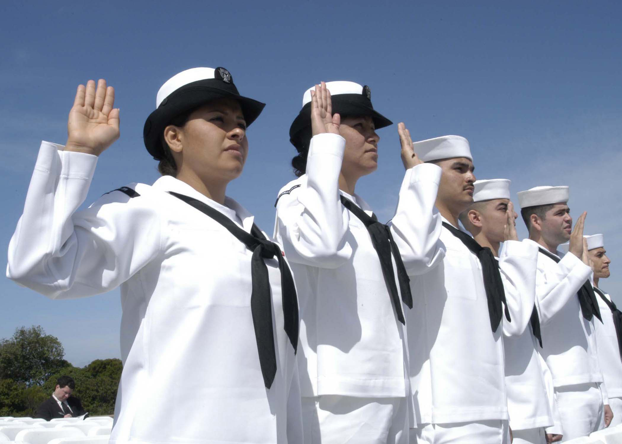 Cabrillo National Monument, San Diego, Calif. (May 1, 2003) --Sailors raise their right hands and take the oath of U.S. citizenship during a naturalization ceremony held at Cabrillo National Monument. The ceremony concluded a nearly ten-month deployment during which the Lincoln Carrier Strike Group supported coalition forces in both Operations Enduring Freedom and Iraqi Freedom.